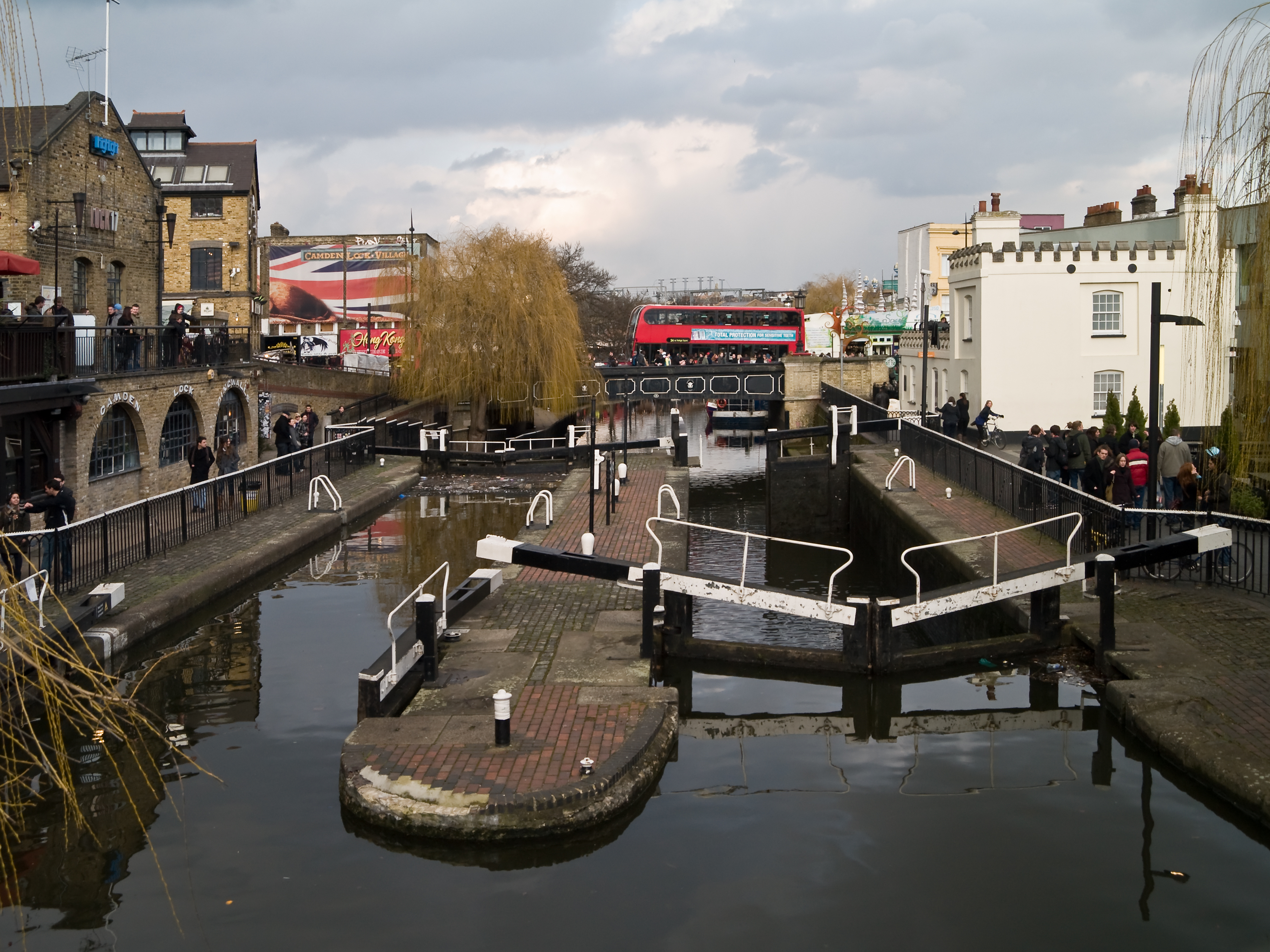 Camden Lock on the Regent's Canal in Camden Town (London Borough of Camden, Greater London, United Kingdom)